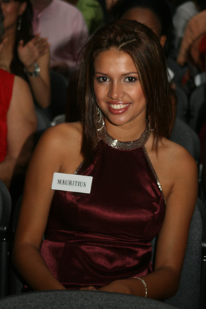 Miss Mauritius 2008 Olivia Carey during Miss World 08